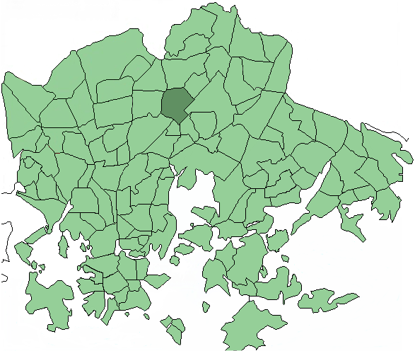 Districts of Helsinki, Pukinmäki highlighted